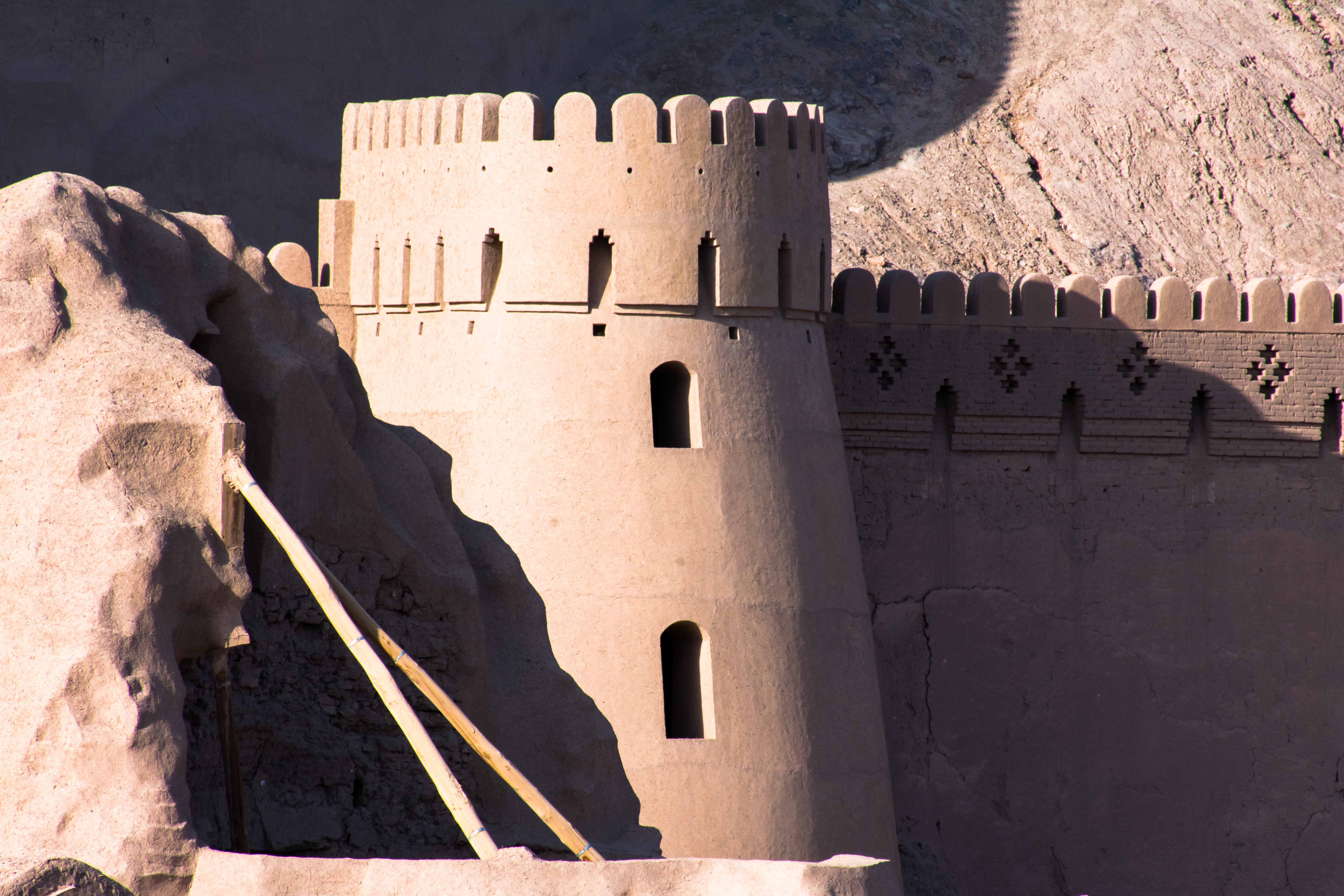 Arg e Bam is the largest adobe building in the world, located in Bam, a city in Kerman Province of southeastern Iran. It is listed by UNESCO as part of the World Heritage Site "Bam and its Cultural Landscape". Geographical Coordination : 29.115273, 58.369388 The photo was taken at 26-th of March 2018 , 14 years and 3 months after the earth-quick which destroyed almost completely the site. More Detail on